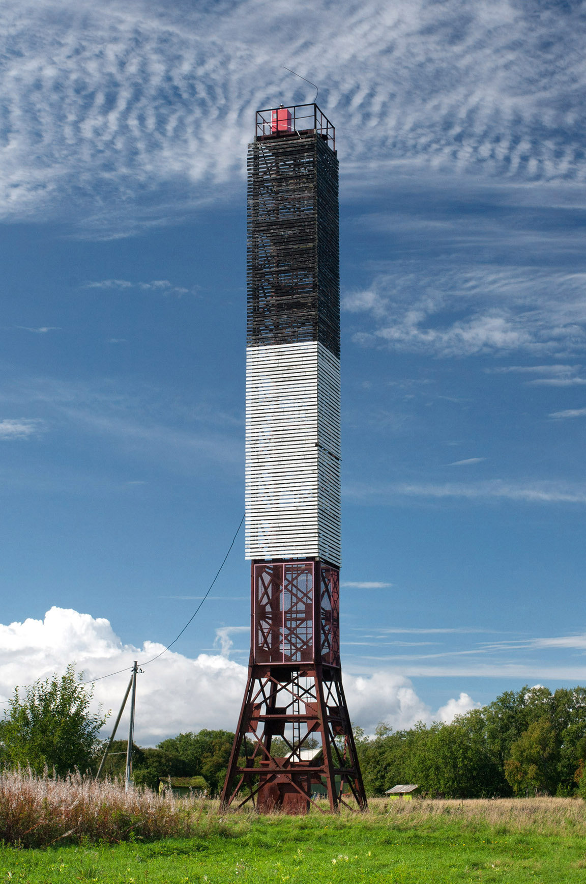 Moldova light beacon